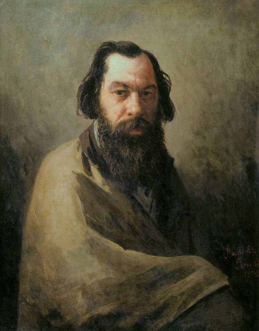 Portrait of the Painter Alexej Savrasov Kondratyevich.